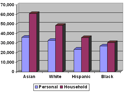 Barchart showing individual and household income, by race, in the U.S.